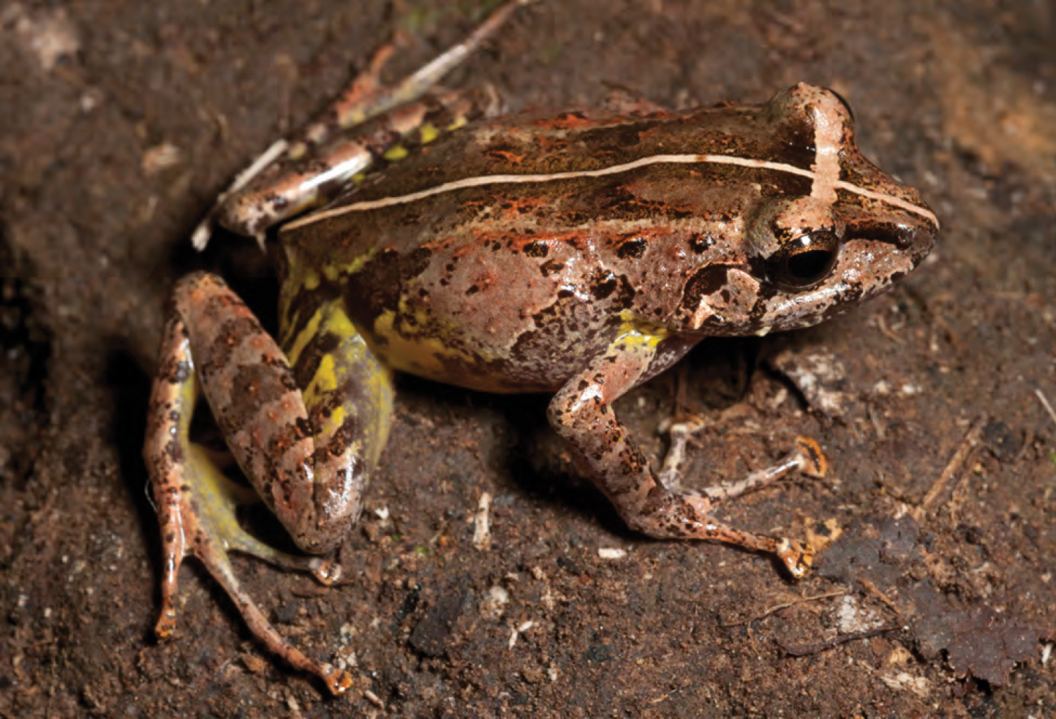 Platymantis cornutus (KU 330390) from mid-elevation of Mt. Cagua. Note diagnostic yellow inguinal coloration and white infratympanic tubercle. Photo: RMB.